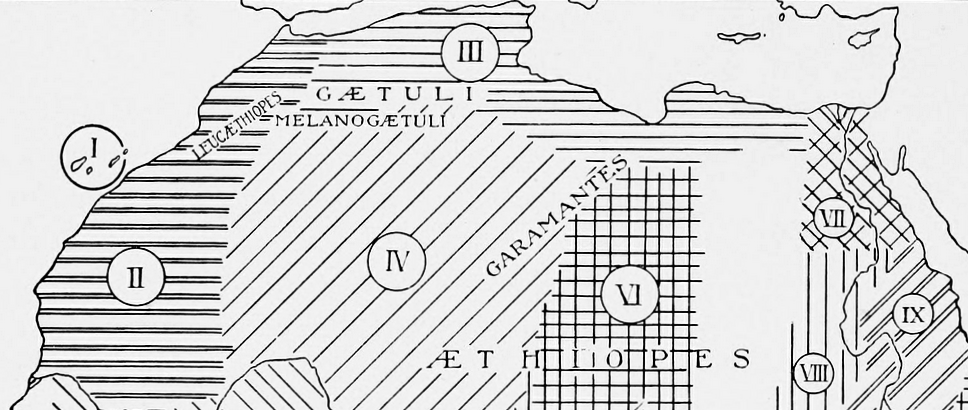 Location of the White Aethiopians in North Africa near Morocco according to Oric Bates, 1914. I Guanches. II Atlantic Hamites. III Mediterranean Hamites. IV Saharan Hamites. VI. Tibbus. VII Egyptians. VIII Nubas. IX Begas.